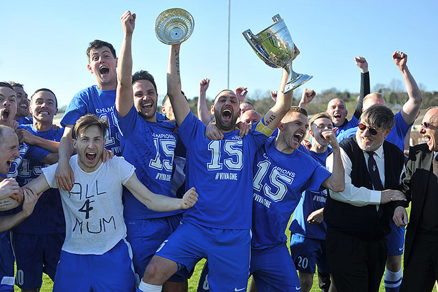 Glossop North End receiving the NWCFL Premier trophy. the first time GNE have won a league since 1927 and the first time GNE have been promoted in the FA Football pyramid since 1898